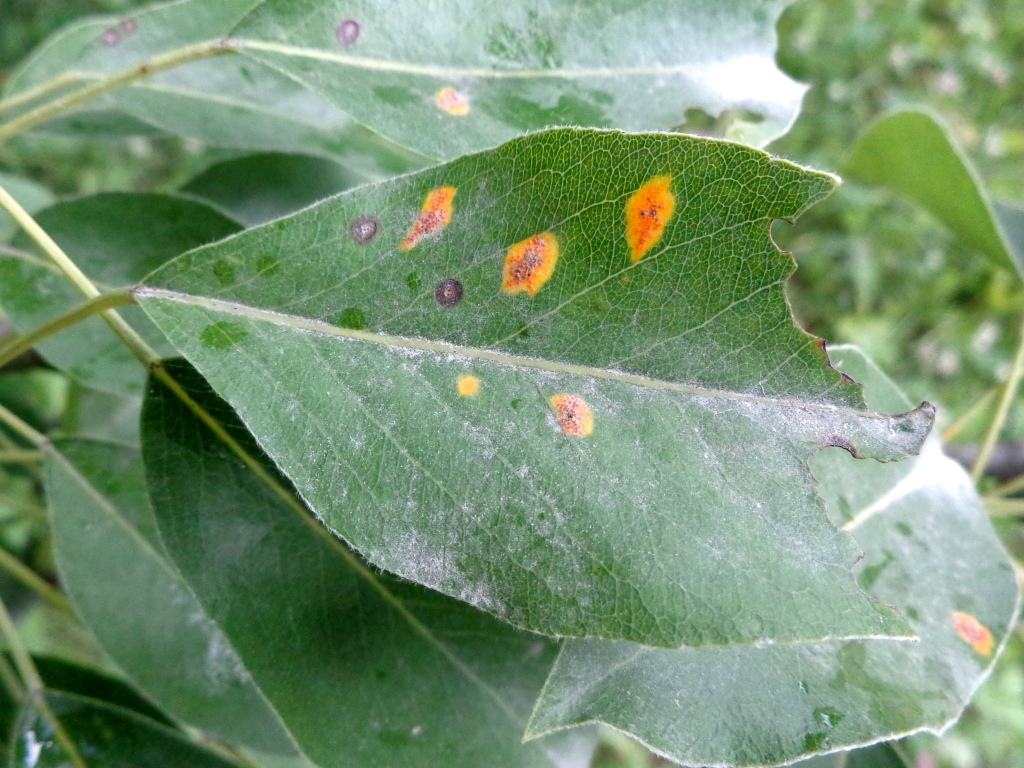 Gymnosporangium clavariiforme. Found in Bērzi village near Bauska city, Latvia